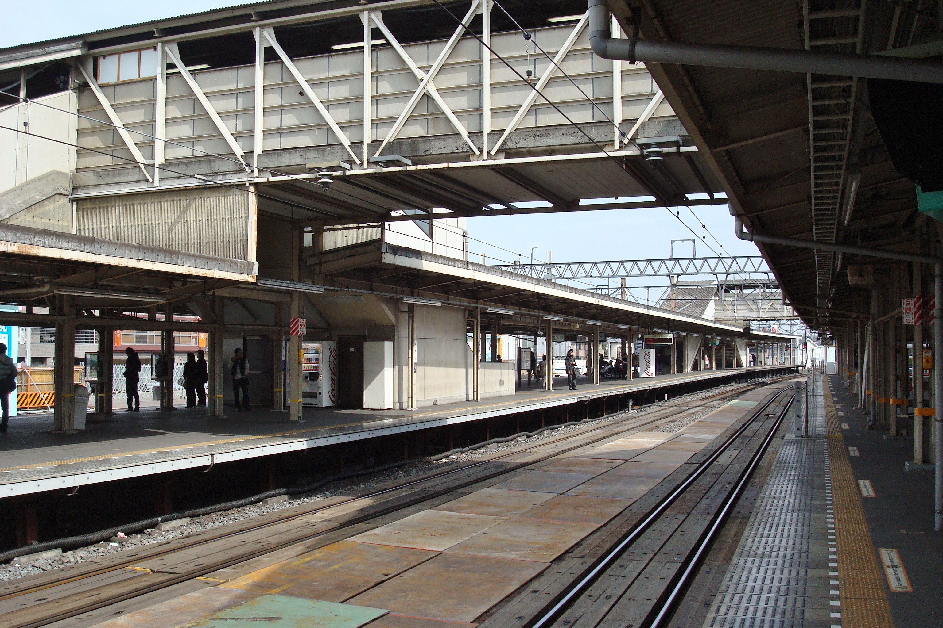 The Tobu Tojo Line platforms (3 and 4) at Sakado Station in Saitama Prefecture, Japan, following the start of rebuilding work